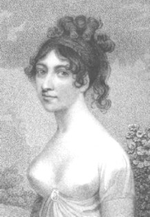 Charlotte Dacre